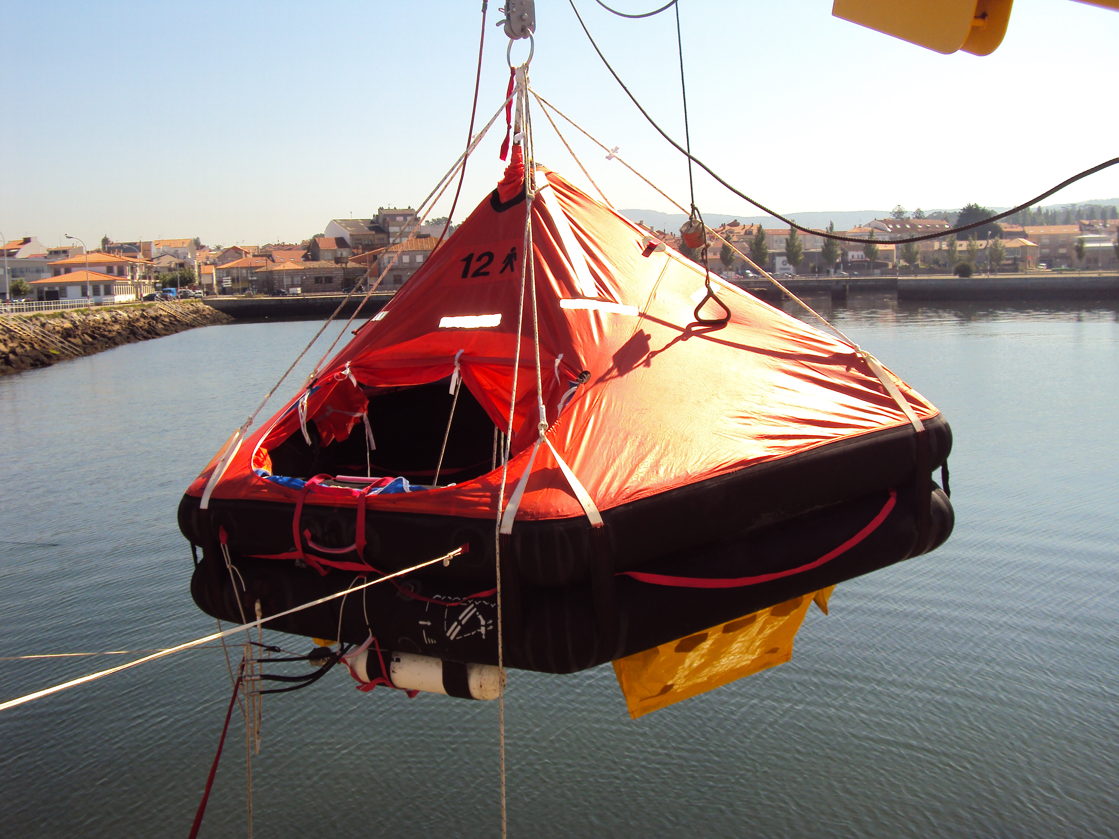 Davit launched liferaft.